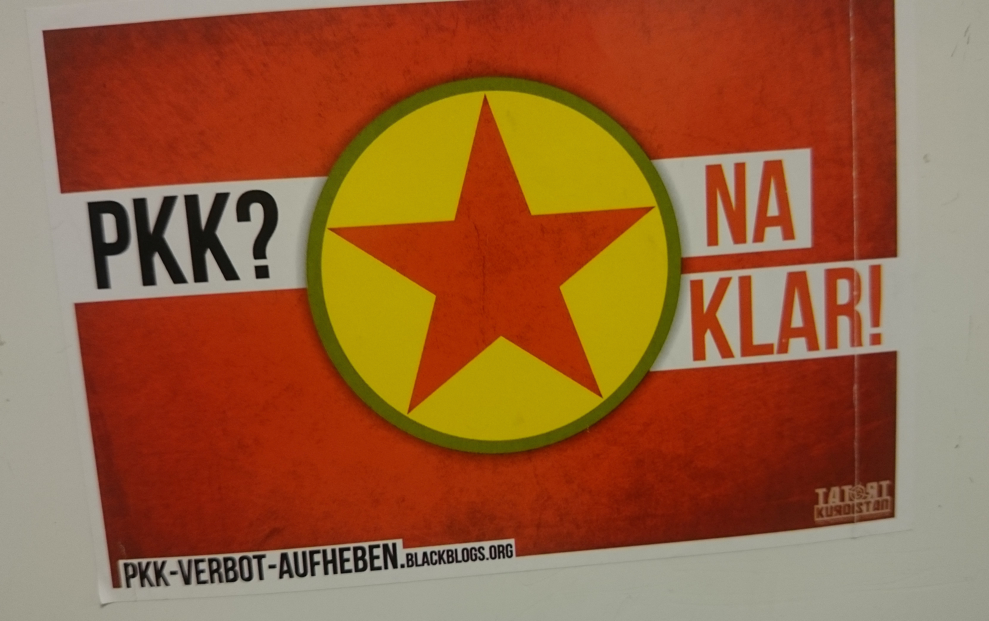 PKK ofcourse sticker